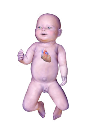 Blue Baby Syndrome. This image was donated by Blausen Medical. Please visit our website to see more medical illustrations and animations.